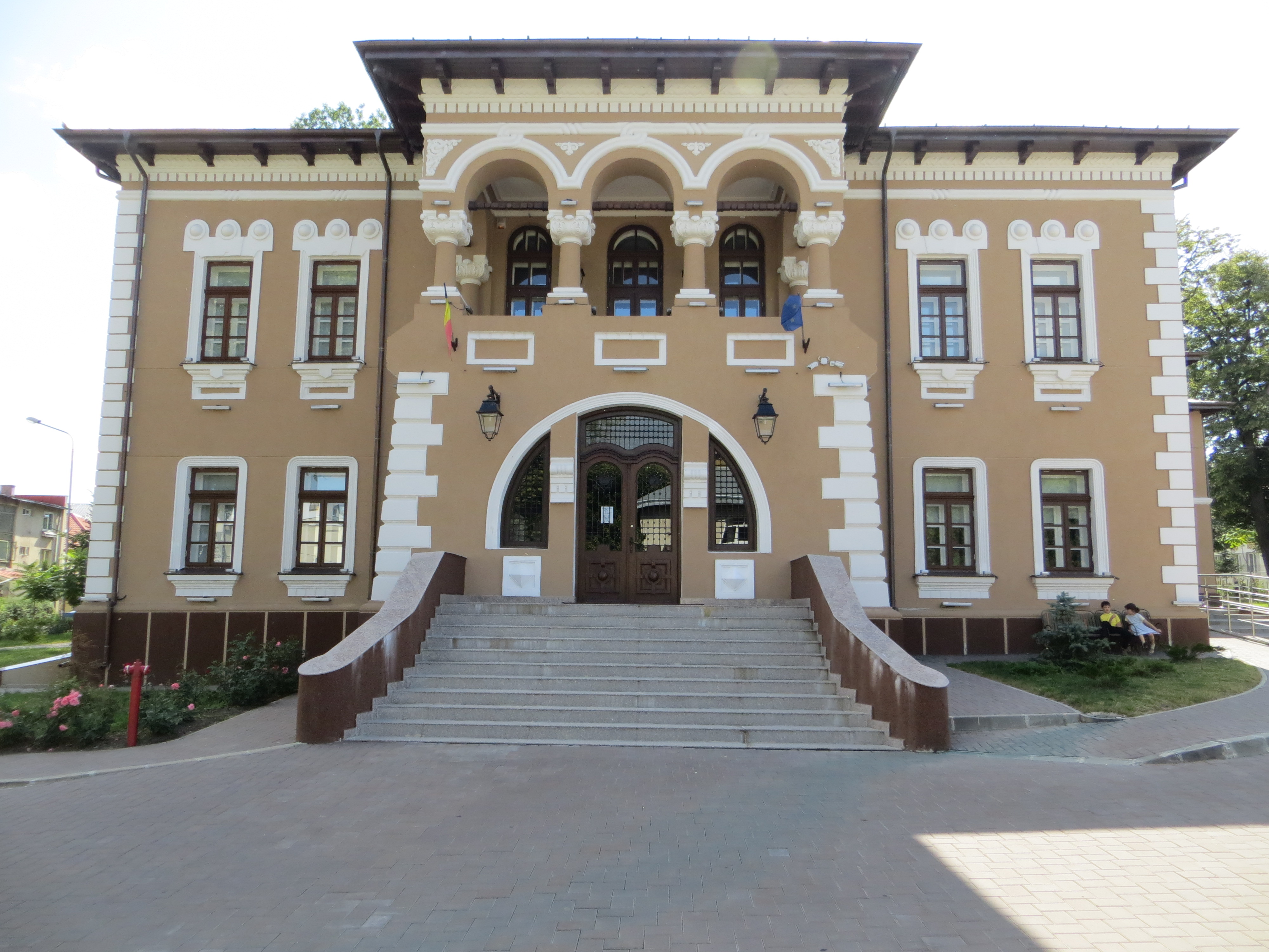 Ion Irimescu Art Museum, Fălticeni, Suceava County, Romania.